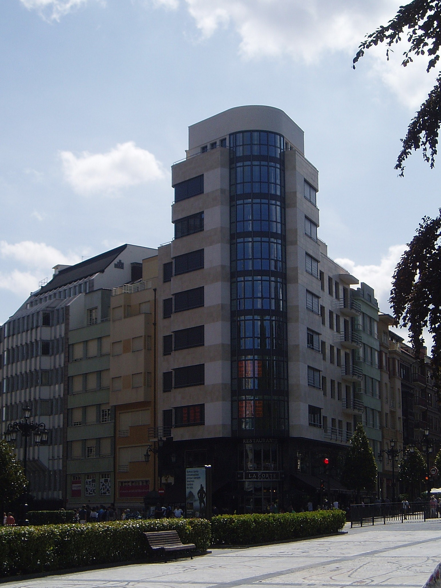 Building known as "El Termómetro" (The Thermometer) located at Escandalera square in the city of Oviedo, Spain